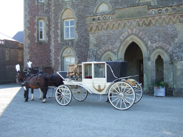 Carriage awaiting bride and groom after a wedding at Newton House, Dinefwr The National Trust house is licensed for wedding ceremonies, and the couple chose to leave in this carriage.